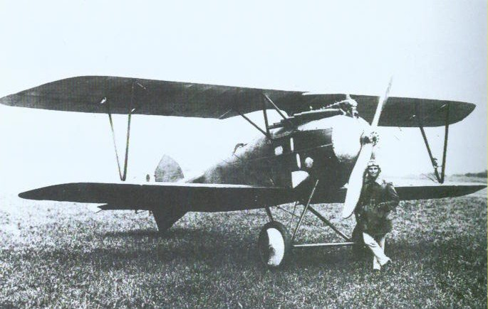 Austrian-built Albatros D.III (Oef) series 253